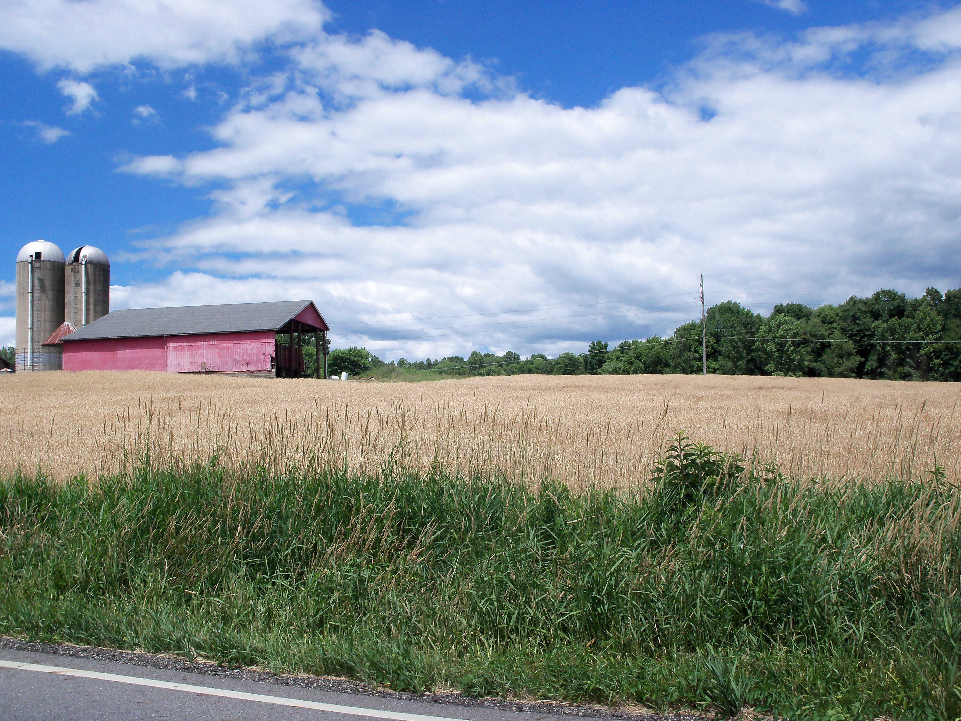 A Wheat field is nearly ready for harvest, with barn and silos in the background in Windham Township, Portage County, Ohio